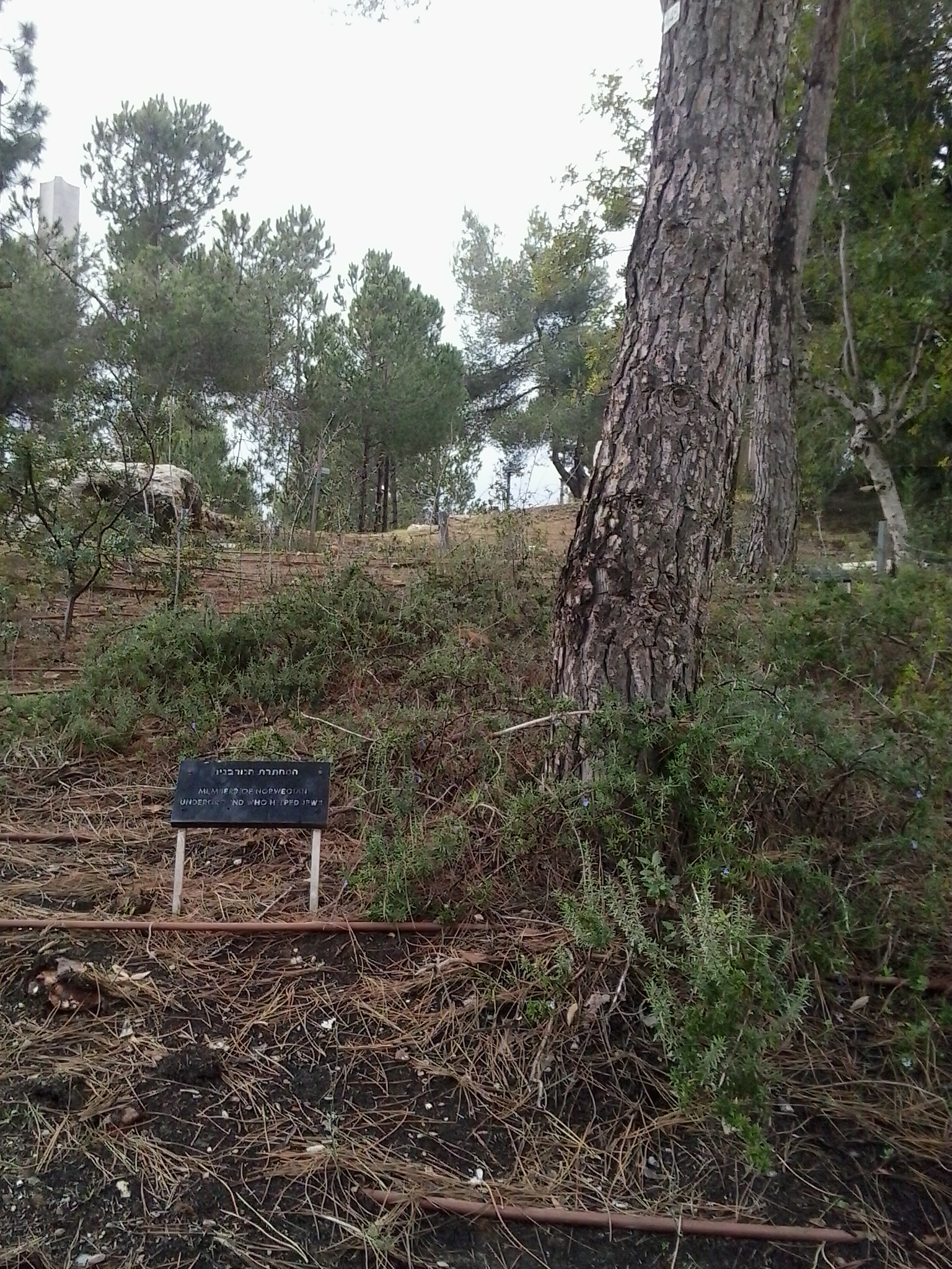 The tree planted at Yad Vashem honoring Norwegian Underground